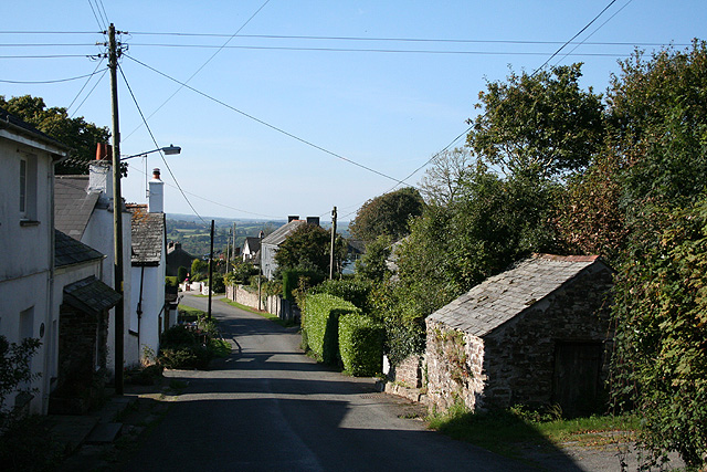 St Stephens by Launceston: Langore Village between Launceston and North Petherwin, on a side road. Looking west-north-west